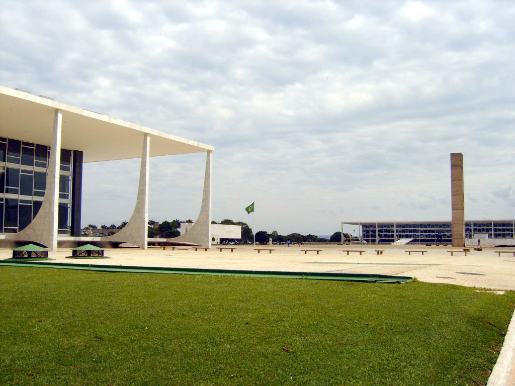 Tres Poderes Square in Brasilia, Brazil, own work